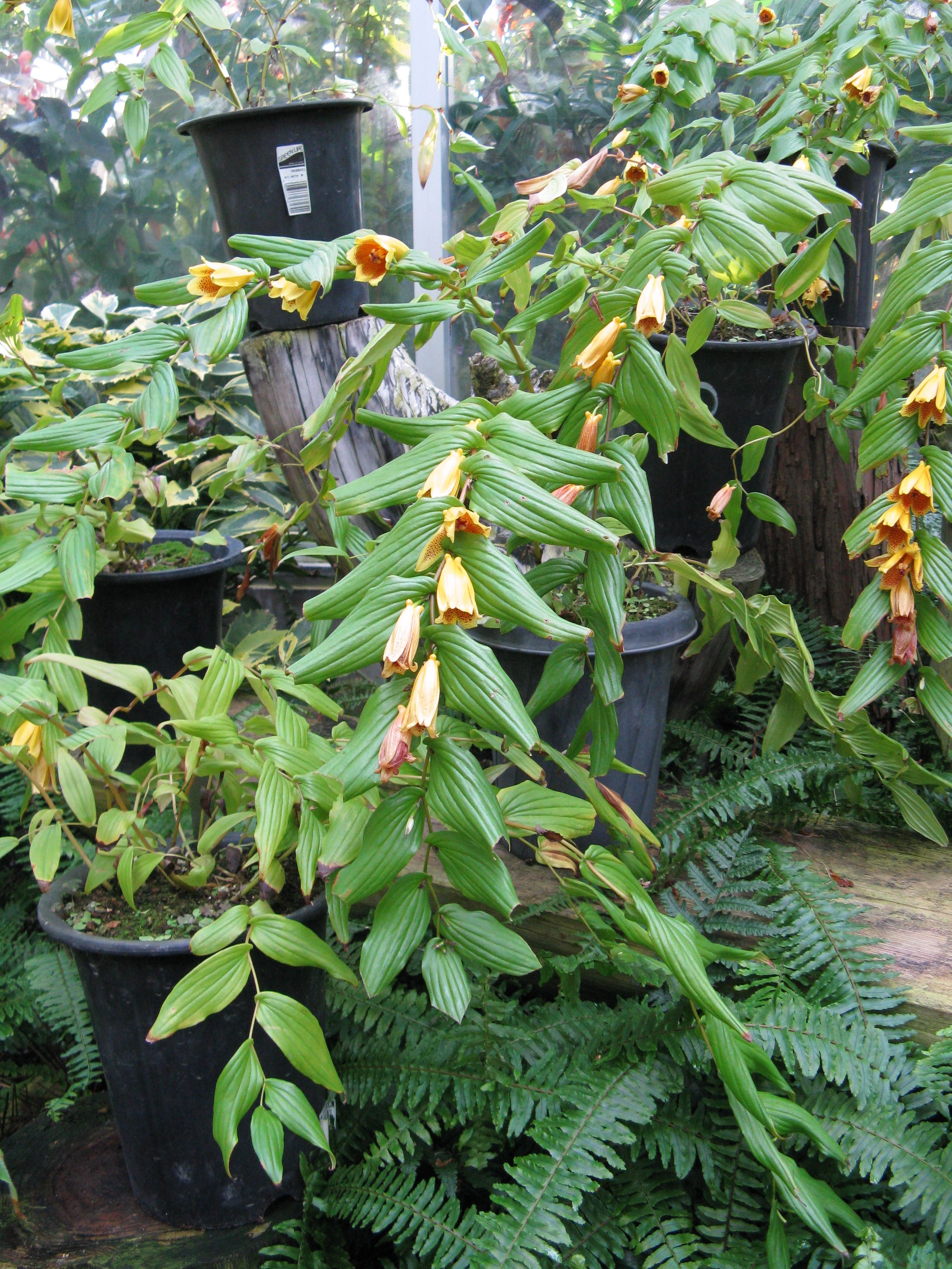 Tricyrtis macranthopsis